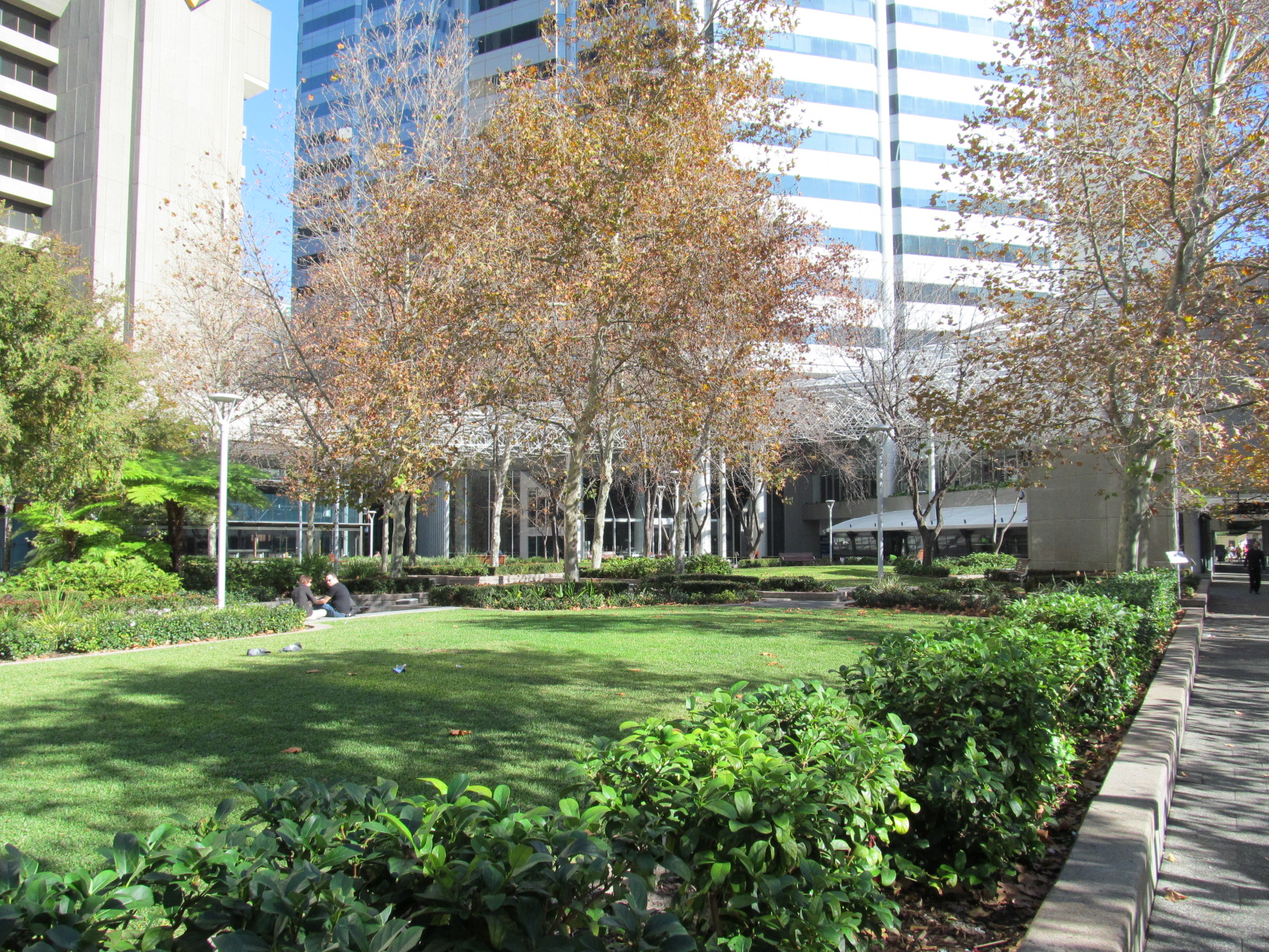 Gardens at the front of Central Park, Perth, Western Australia